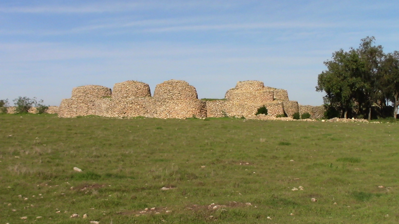 A 7 Tazota complex, Municipality of Sidi Abed, Province of el-Jadida, Morocco